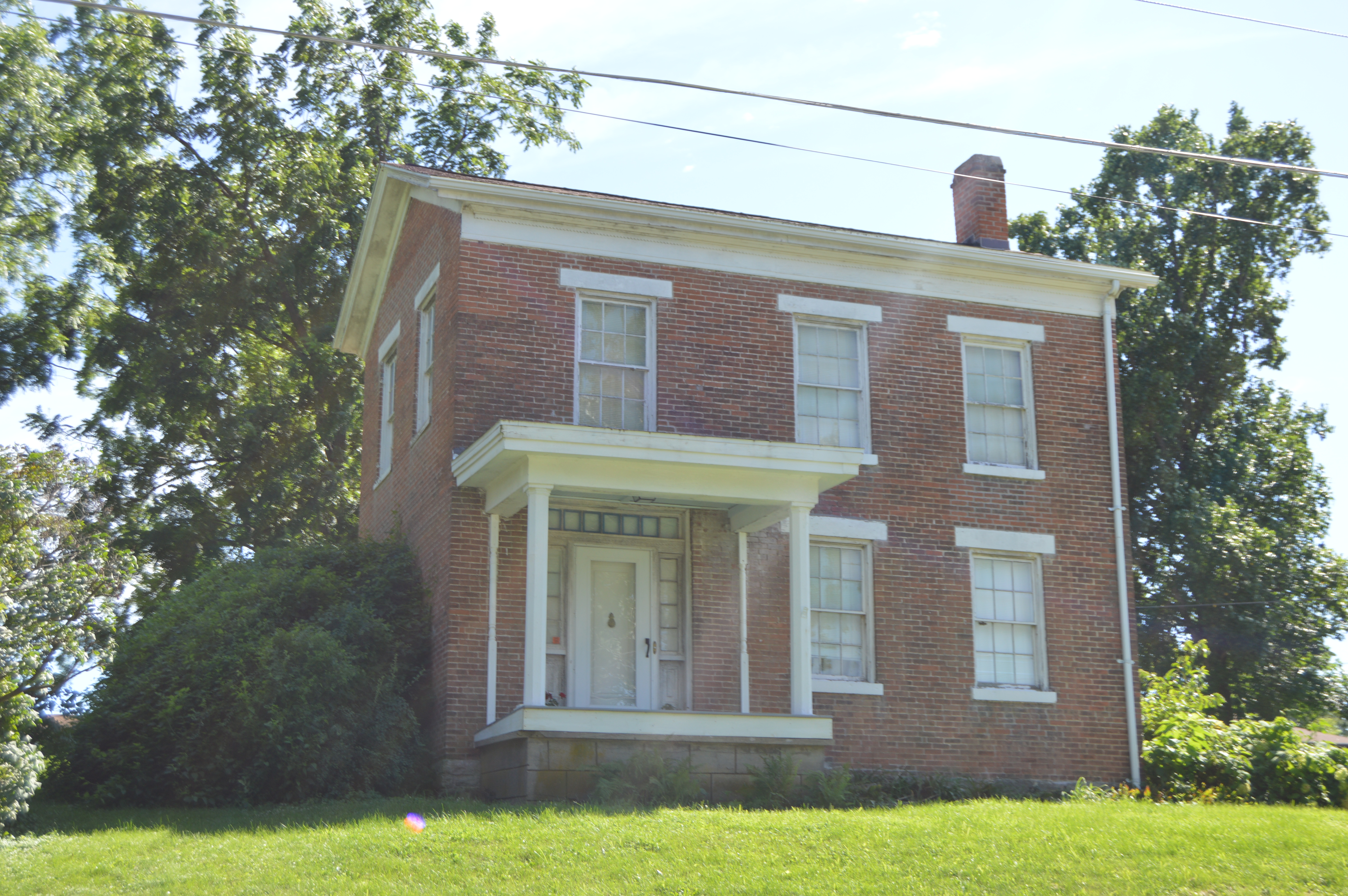 Front and eastern side of the William Gray House, located at 407 Washington Street in La Grange, Missouri, United States. Built in 1860, it is listed on the National Register of Historic Places.